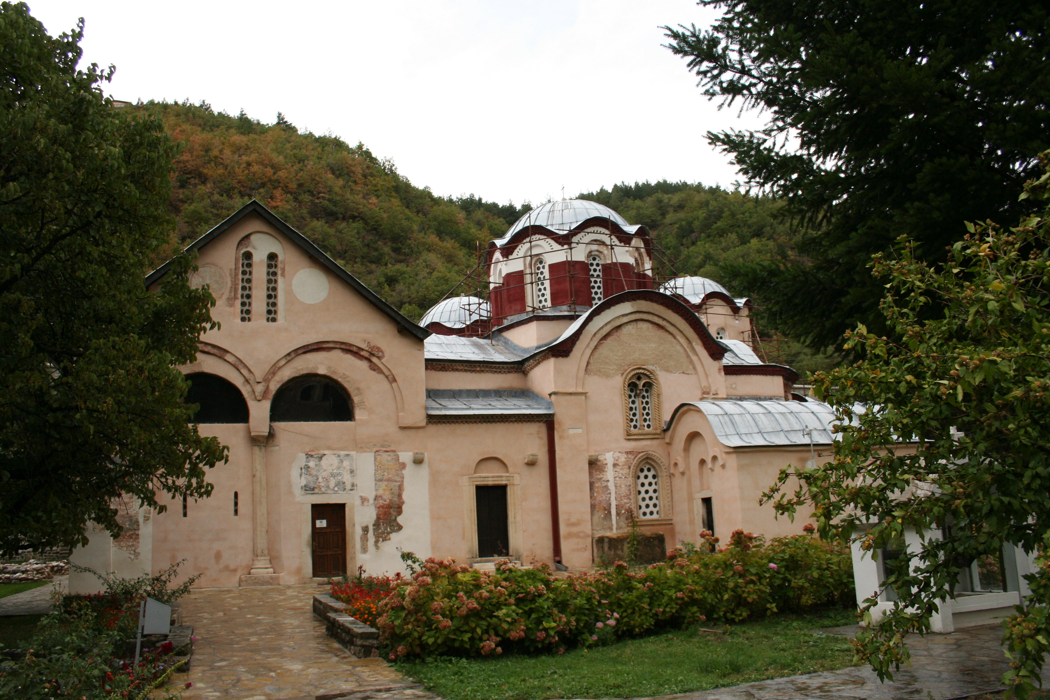 Shot of Orthodox monastery from gardens. Located in Kosovo region of Serbia. One of the earliest examples of both Byzantine and Boroque in the region, it's gardens dating back to Roman times. Taken from michael tyler -geoblog.